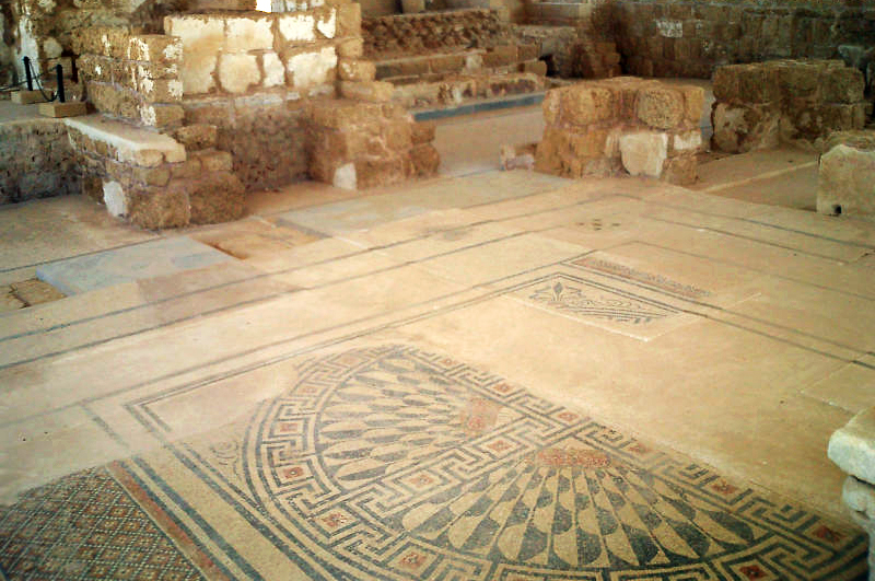 The picture was taken By H20